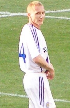 Tiberiu Ghioane - Romanian footballer